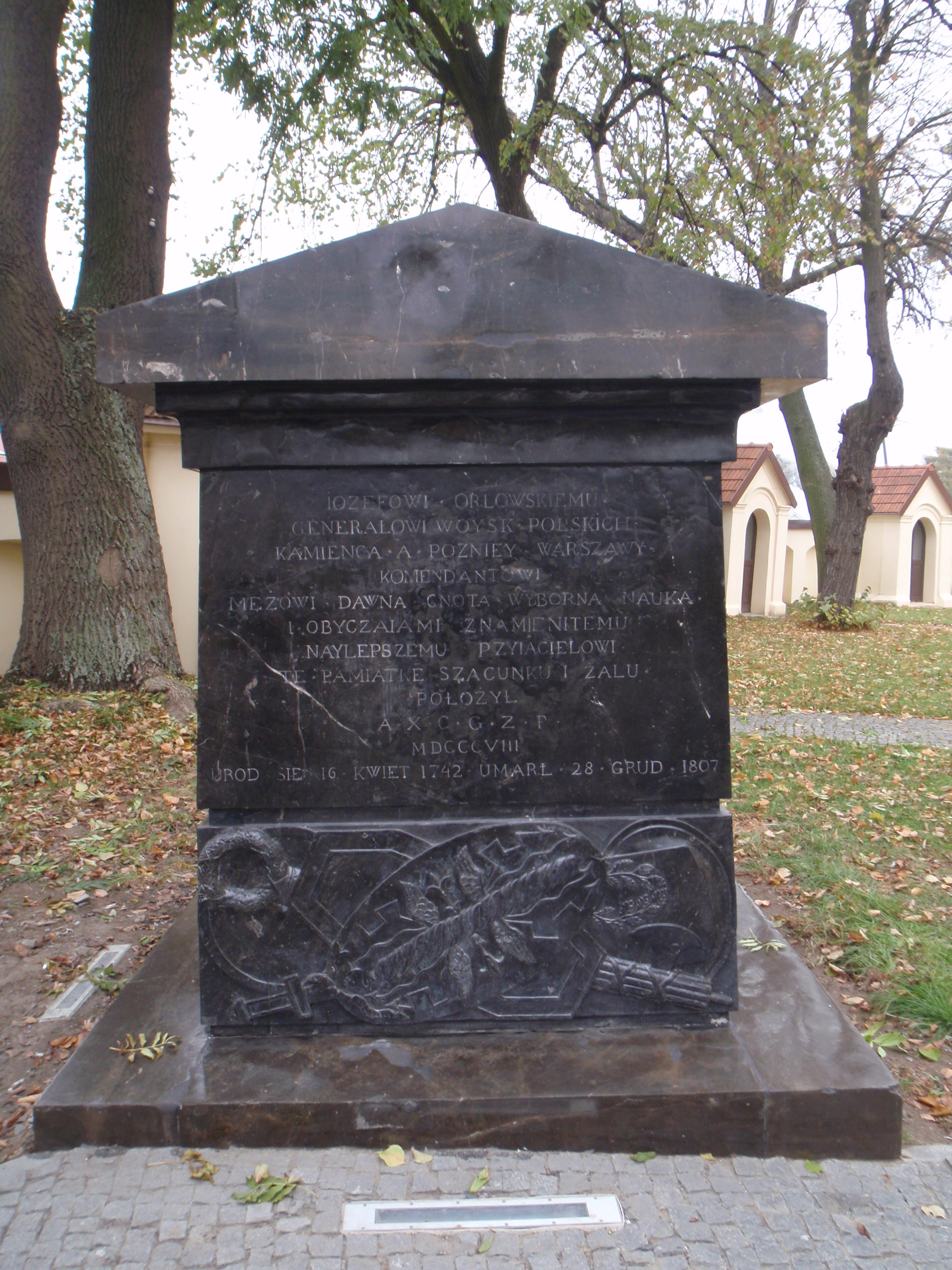 Complex of the church of Invention of the Holy Cross and Saint Andrew in Końskowola